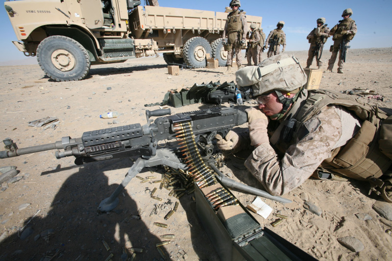 Lance Cpl. William C. Robins stares down the barrel of an M240B 7.62 mm medium machine gun during crew-served weapons training at Tarnak Farm Range, Nov. 25. Robins is a sweep team member with Motor Transportation Company, Combat Logistics Battalion 3, Special Purpose Marine Air Ground Task Force - Afghanistan. SPMAGTF - A's mission is to conduct counterinsurgency operations, and train and mentor the Afghan national police. (Photographer: Lance Cpl. Ronald W. Stauffer : Special Purpose Marine Air-Ground Task Force Afghanistan)